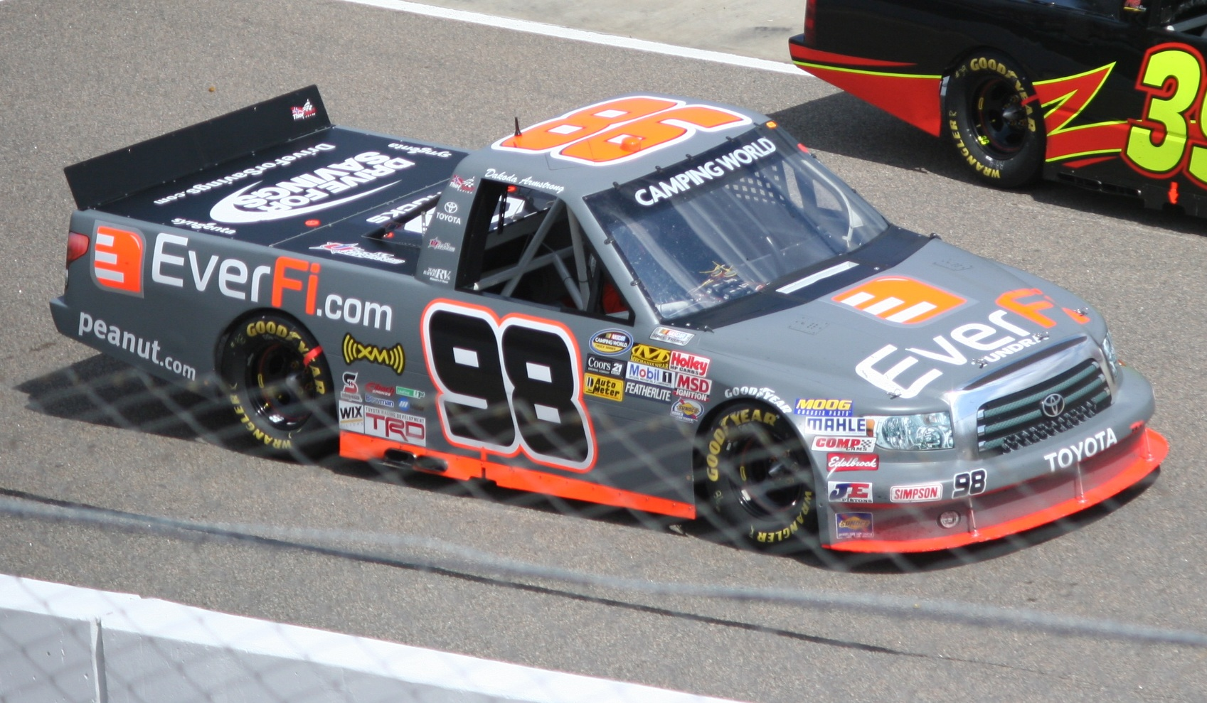 Dakoda Armstrong on pit road at Rockingham Speedway in 2012.